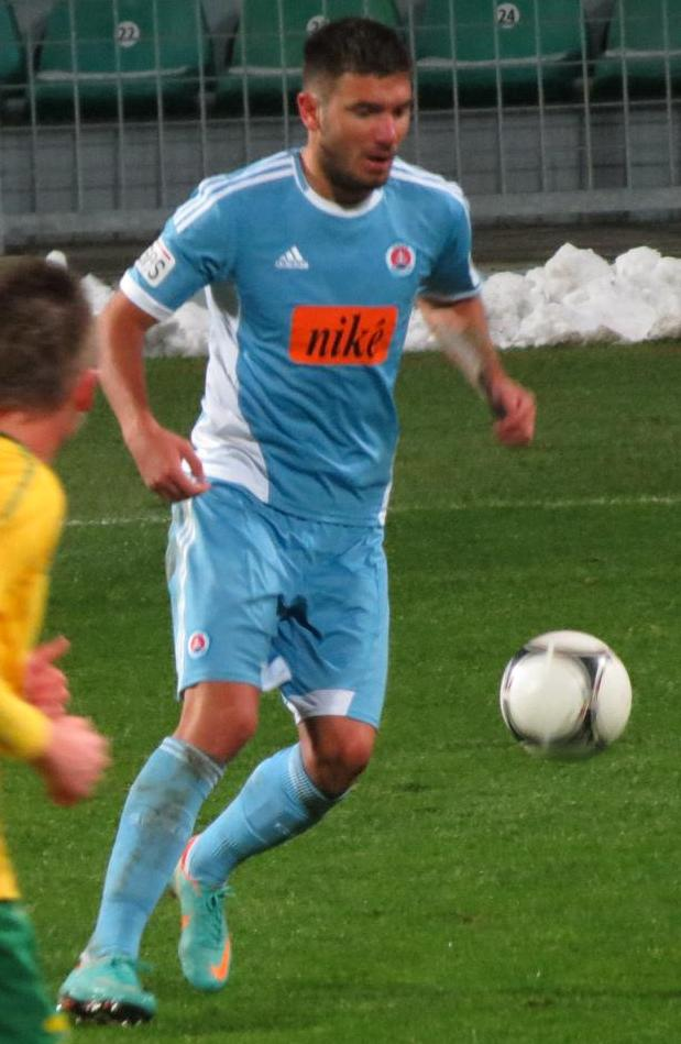 Photo - Serbian footballer Marko Milinković